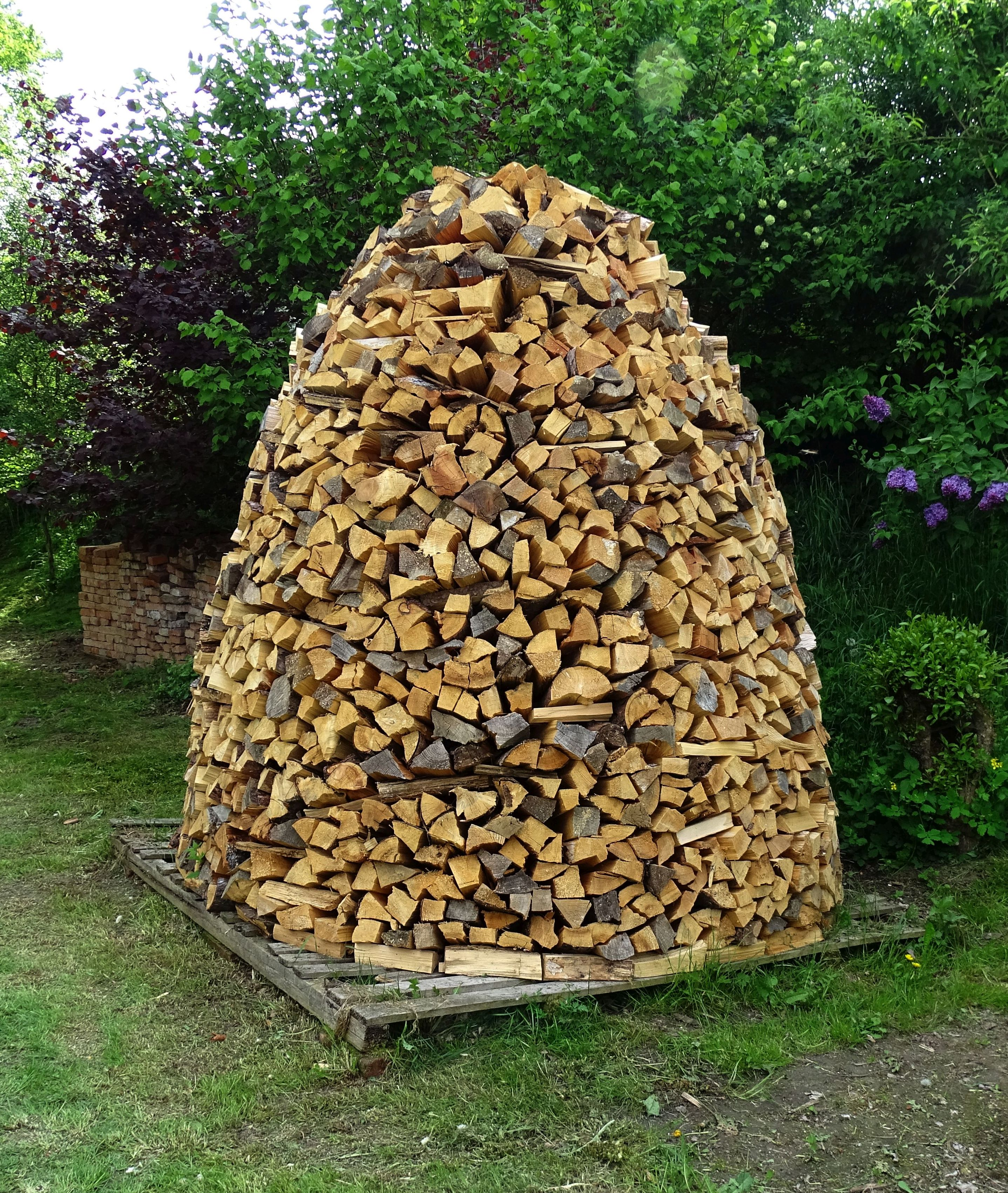 Kosova Hora, Příbram District, Central Bohemian Region, Czech Republic. A way to Dohnalova Lhota, a wood stack near the house no. 191.